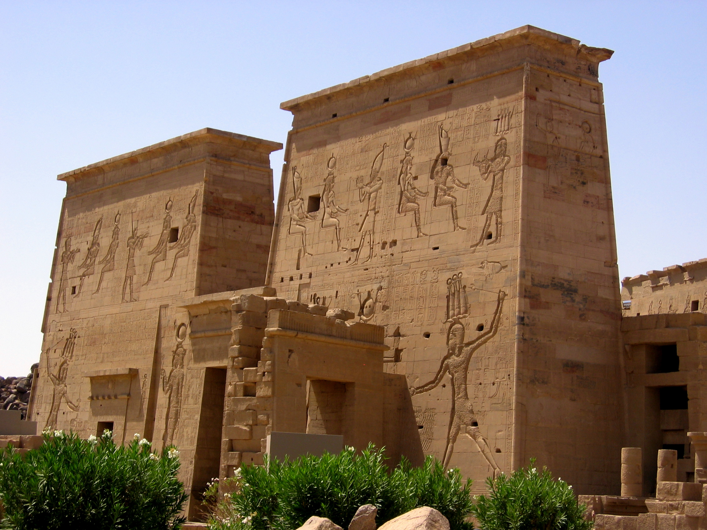 Philae temple, front view